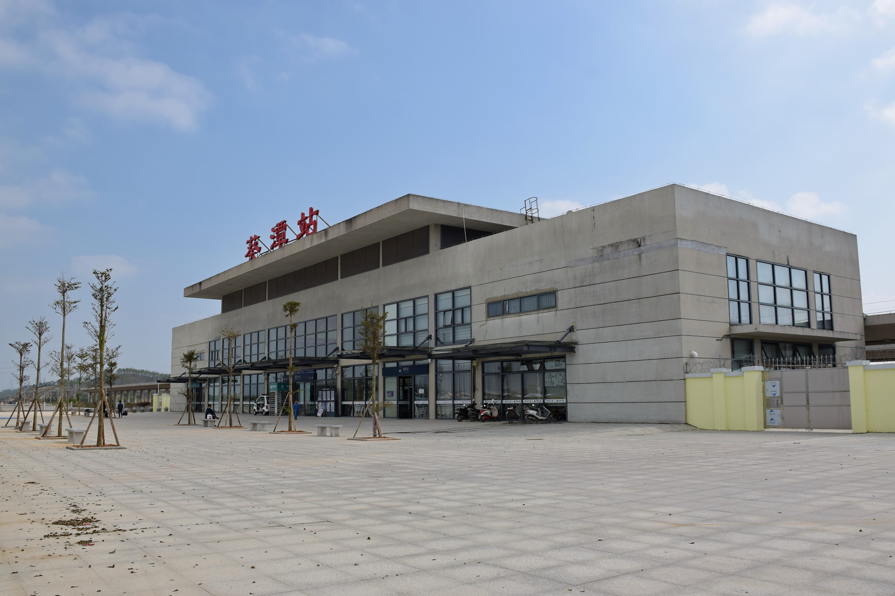 Station building of Kuitan Railway Station